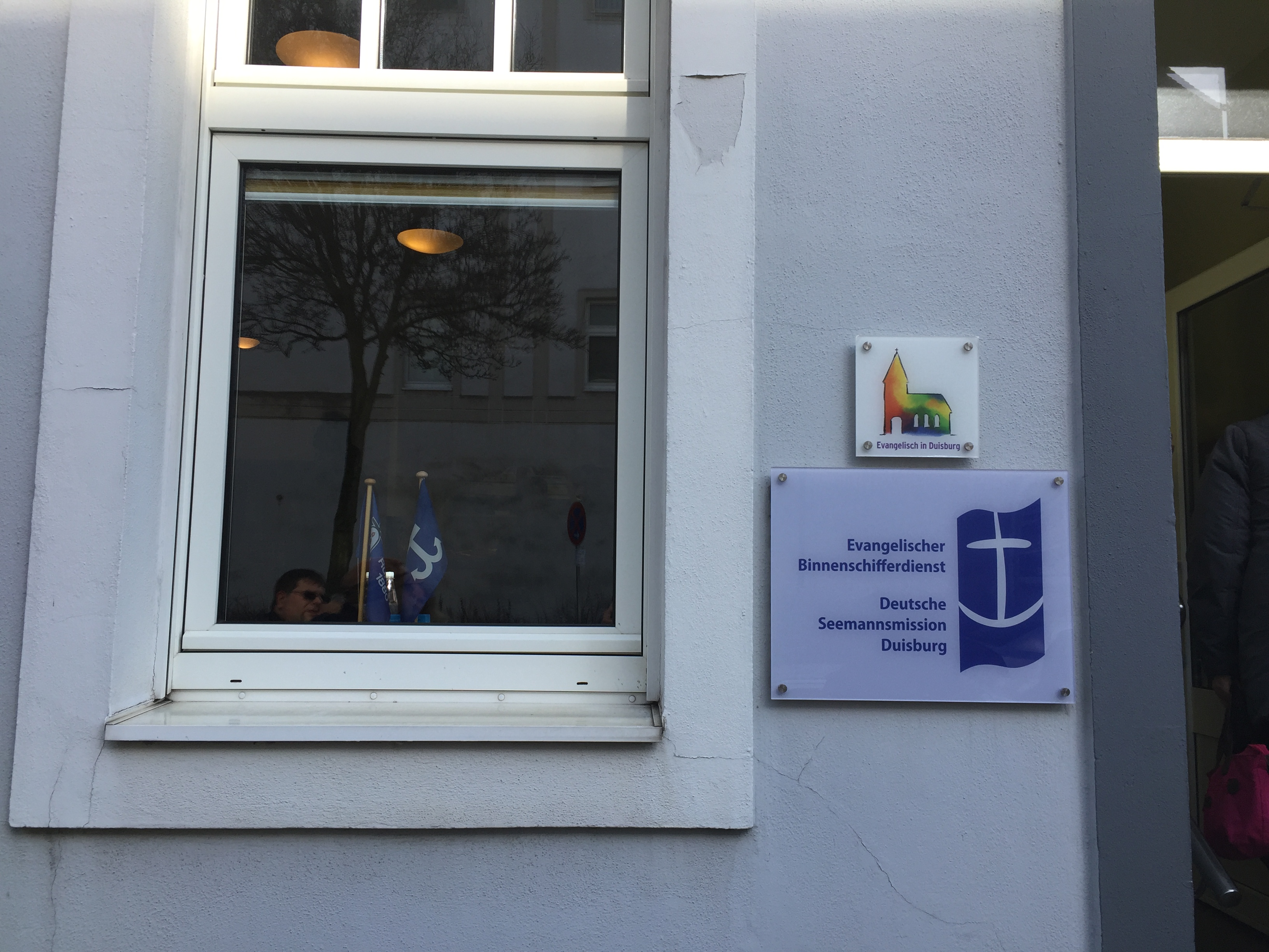 Window and the plate at the entrance